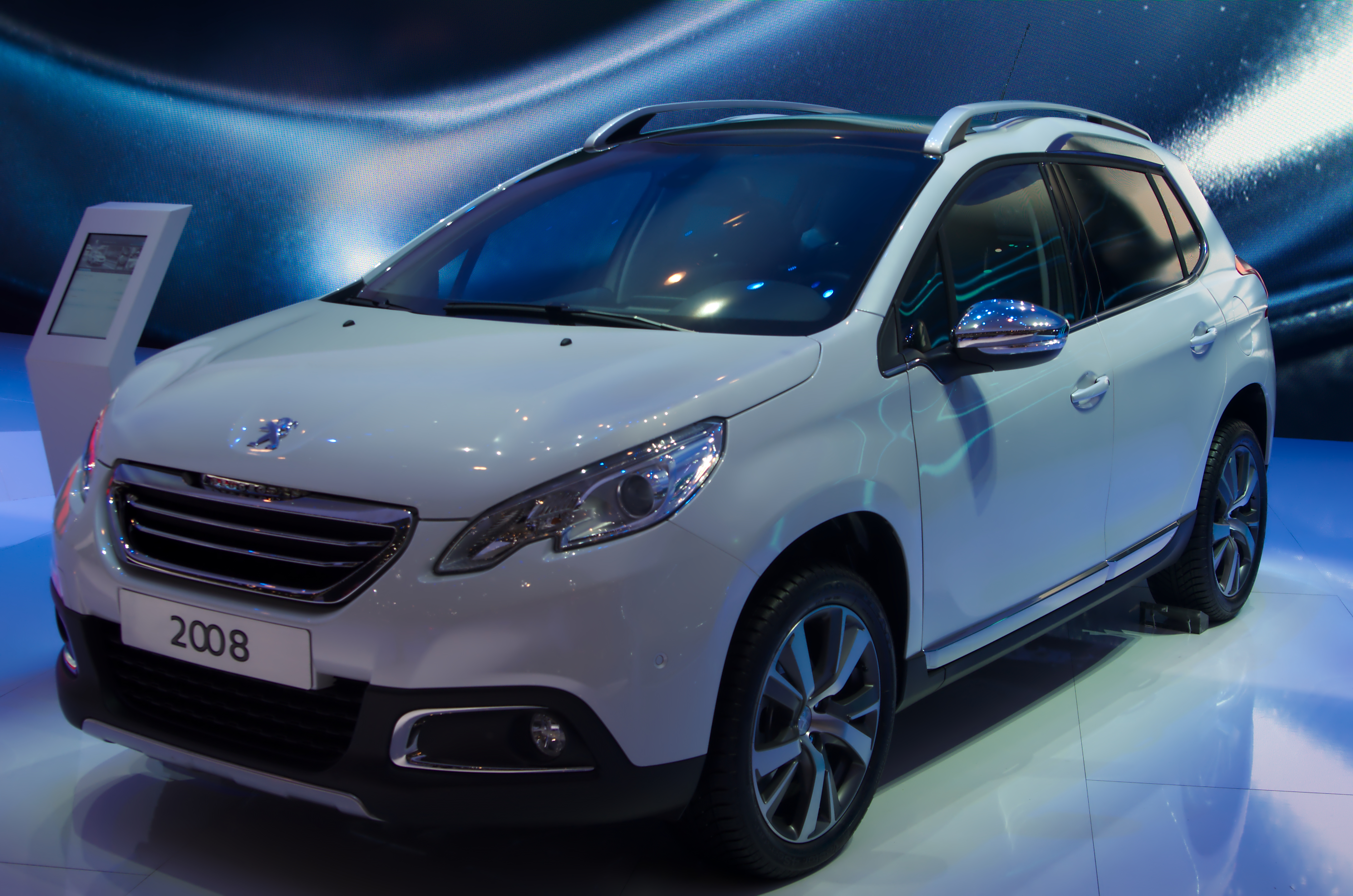 Geneva MotorShow 2013 - Peugeot 2008